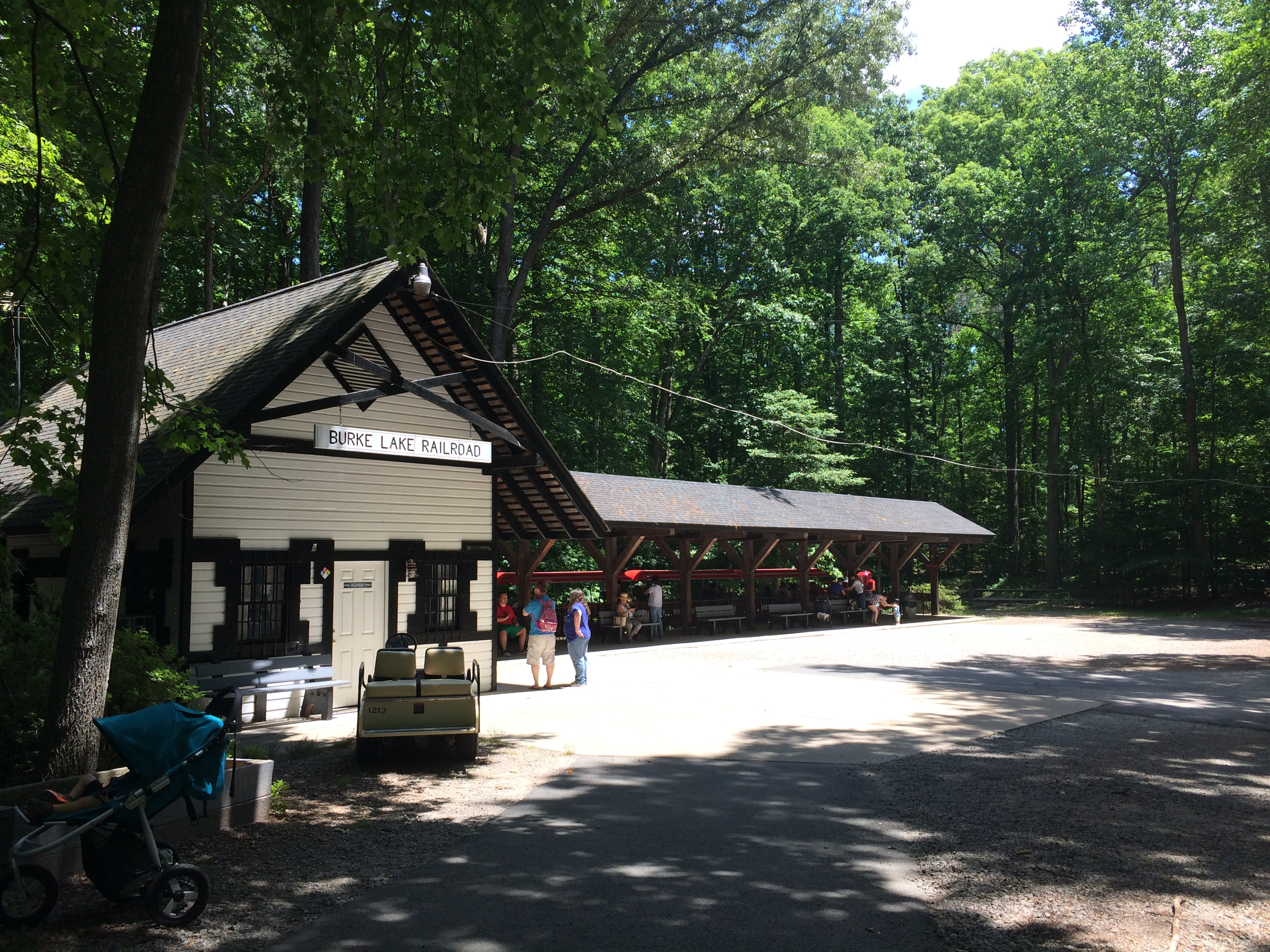 There's a train for kids that goes around the park.